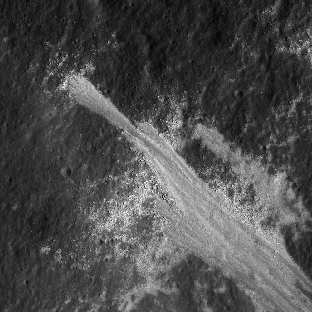 A dry flow of boulders down the slope of Riccioli CA's inner wall. Slope direction is from the bottom right hand corner to the upper left hand corner. LROC NAC M112074670R, image scale is 0.5 meters/pixel, incidence angle is 34° [NASA/GSFC/Arizona State University].